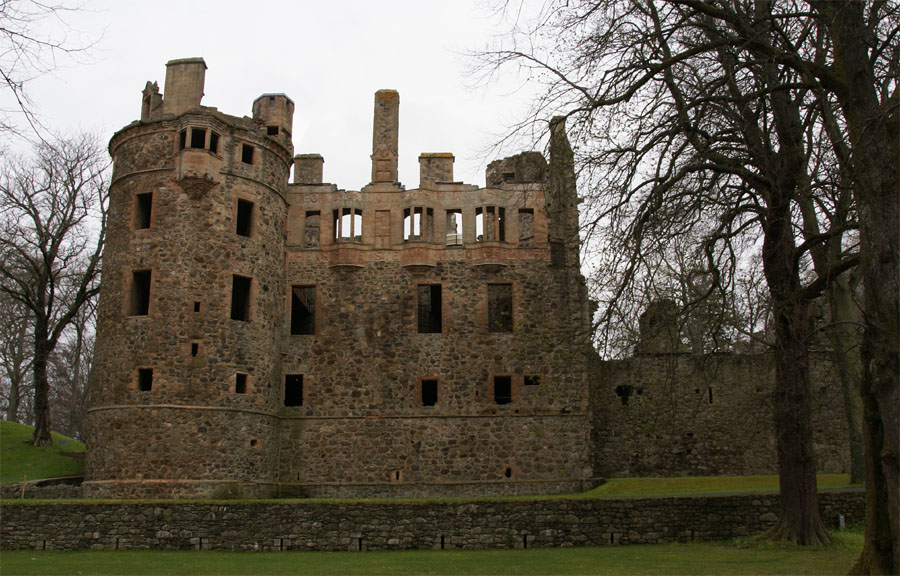 Huntly Castle (Aberdeenshire, Scotland)